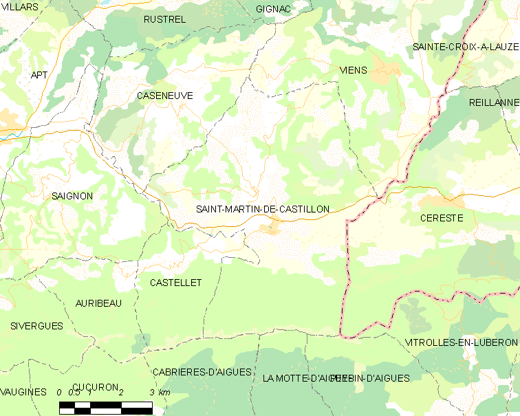 Map of French municipality Saint-Martin-de-Castillon